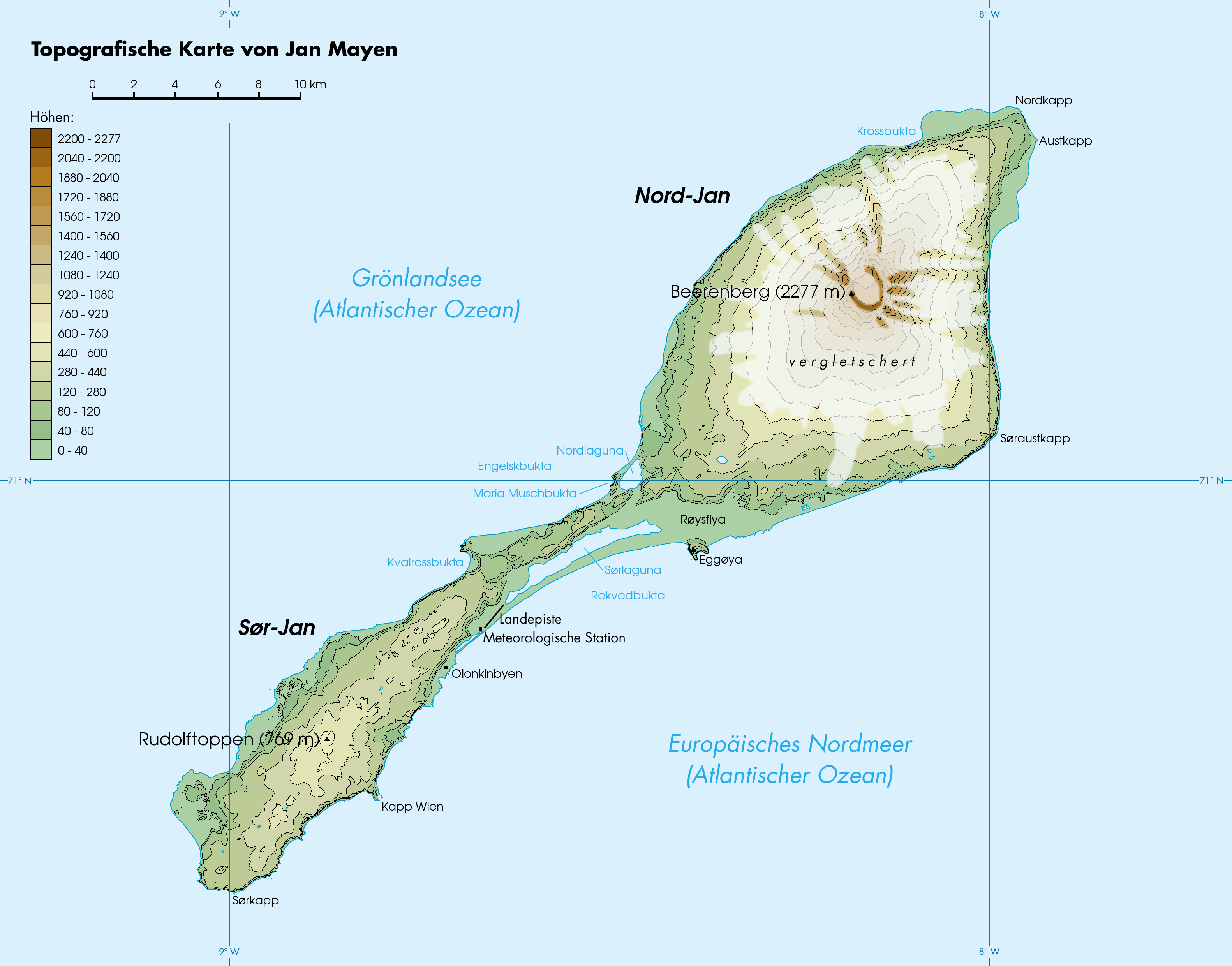 Topographic map of Jan Mayen, Norway